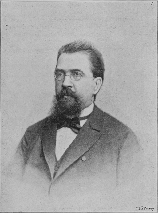 Portrait of František Šembera (1842-1898), Czech historian.